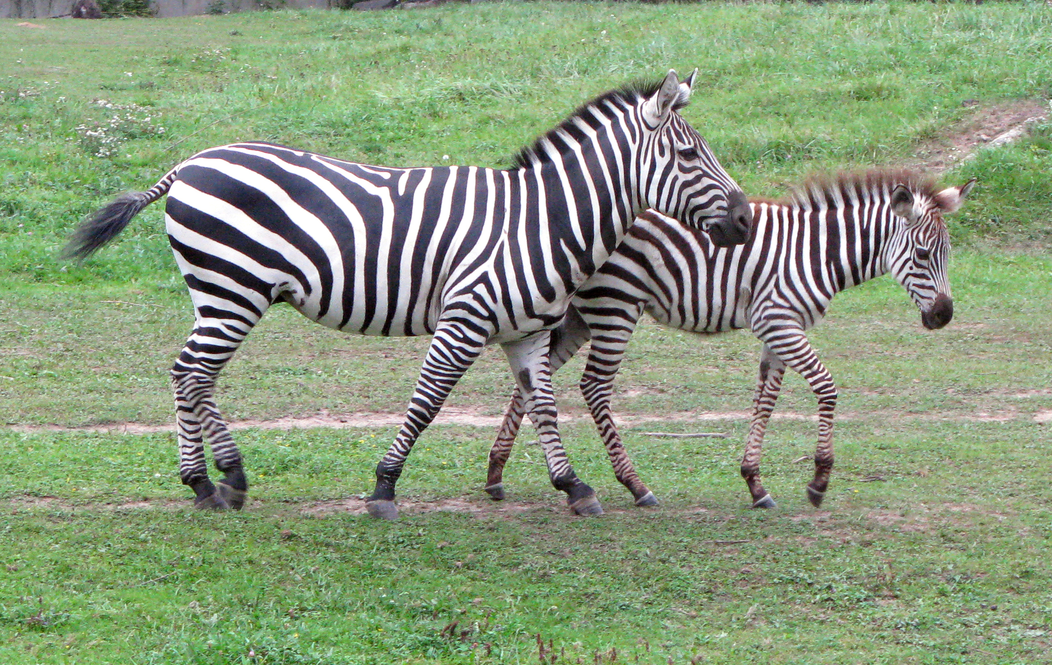 Grant's Zebra in Zoo Opole